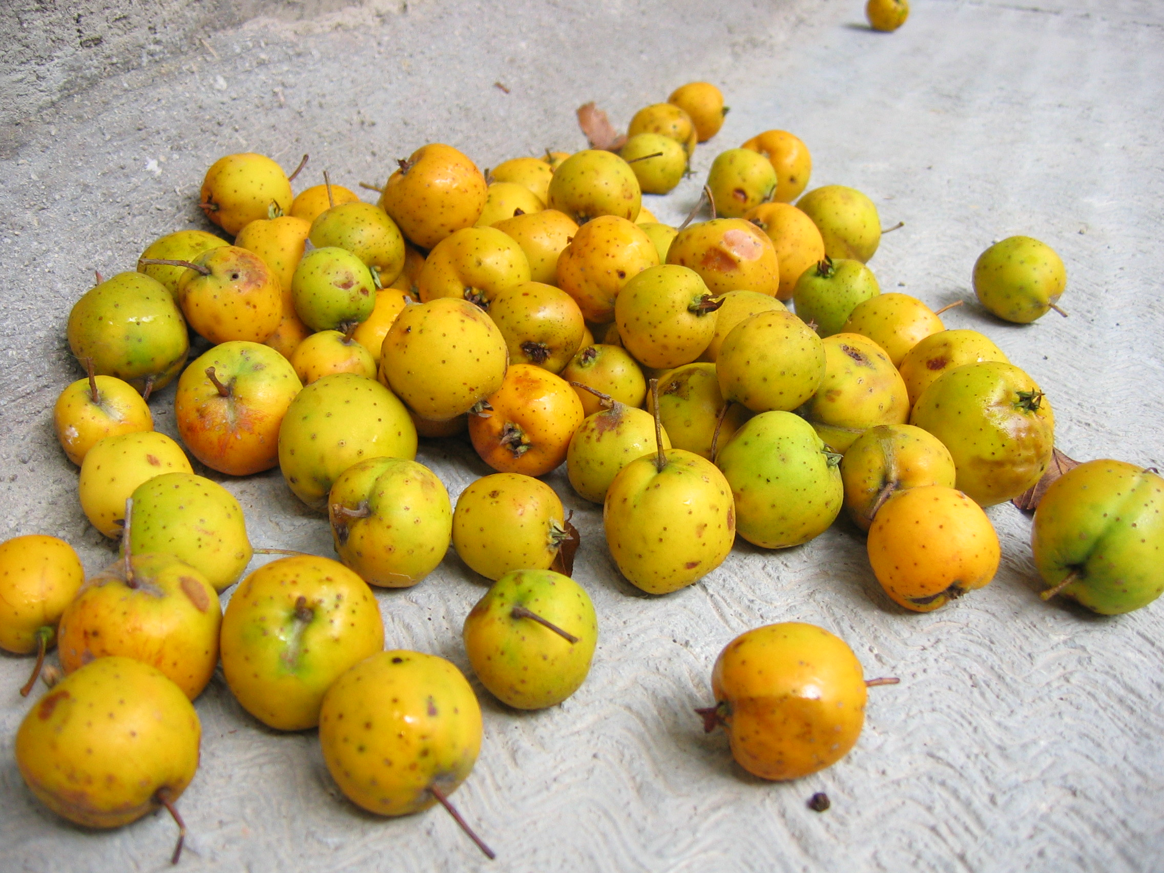 A bunch of tejocote (Crataegus mexicana, Mexican Hawthorn)